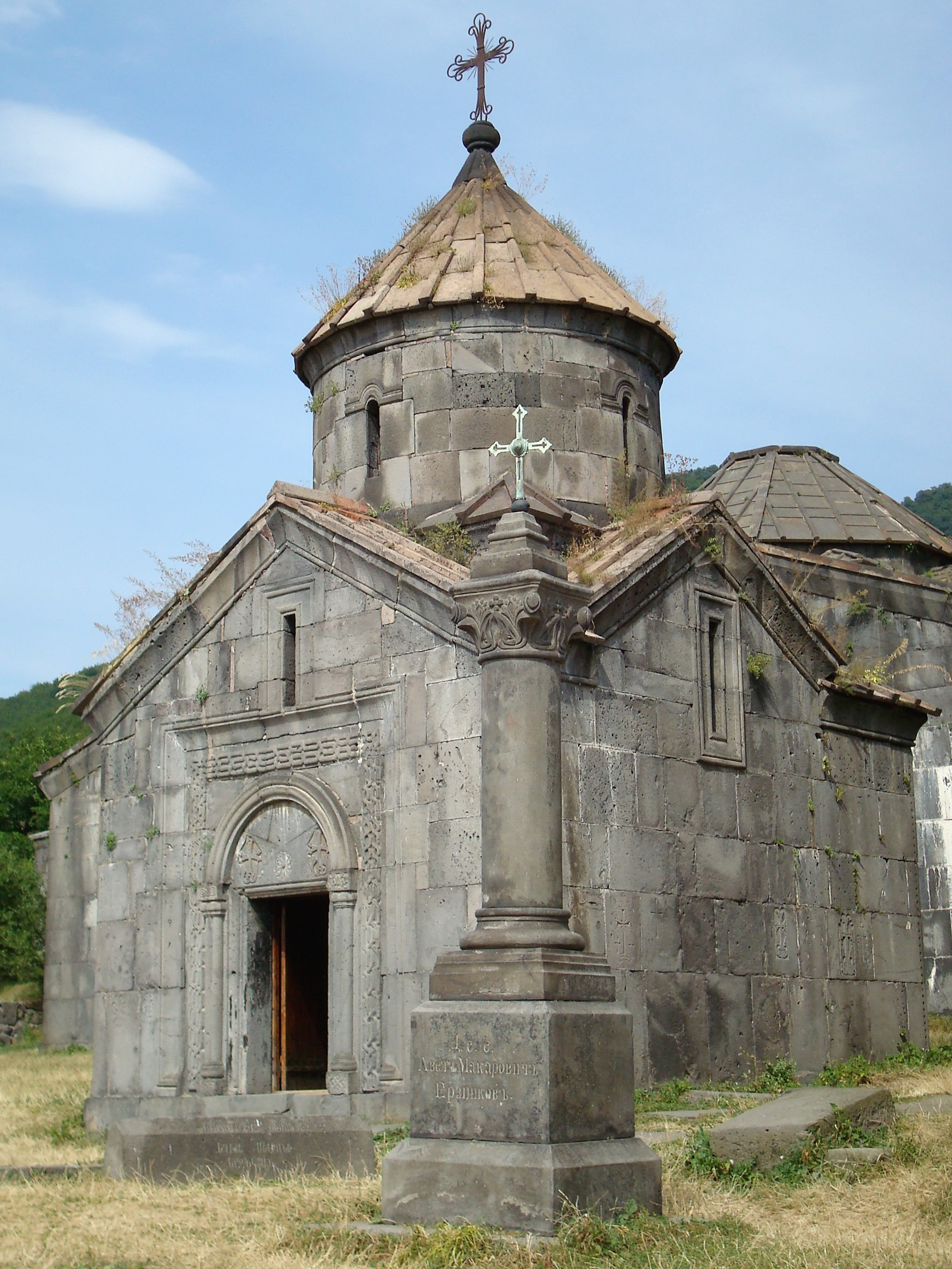 Church of Saint Mother of God at Haghpat in Armenia